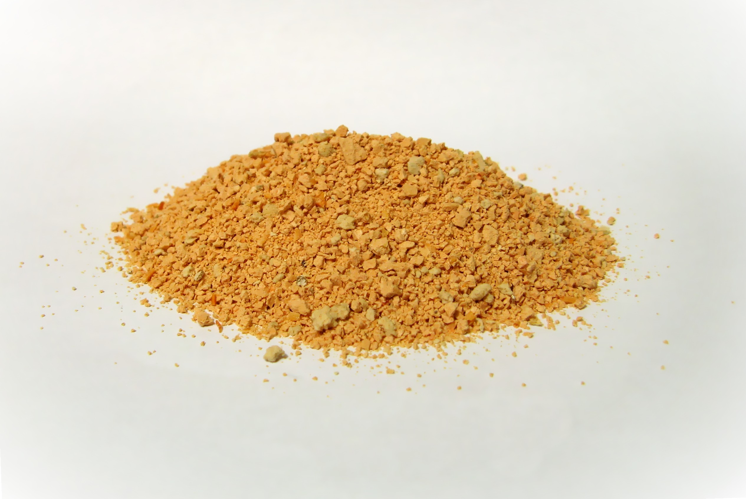 Bulgarian food